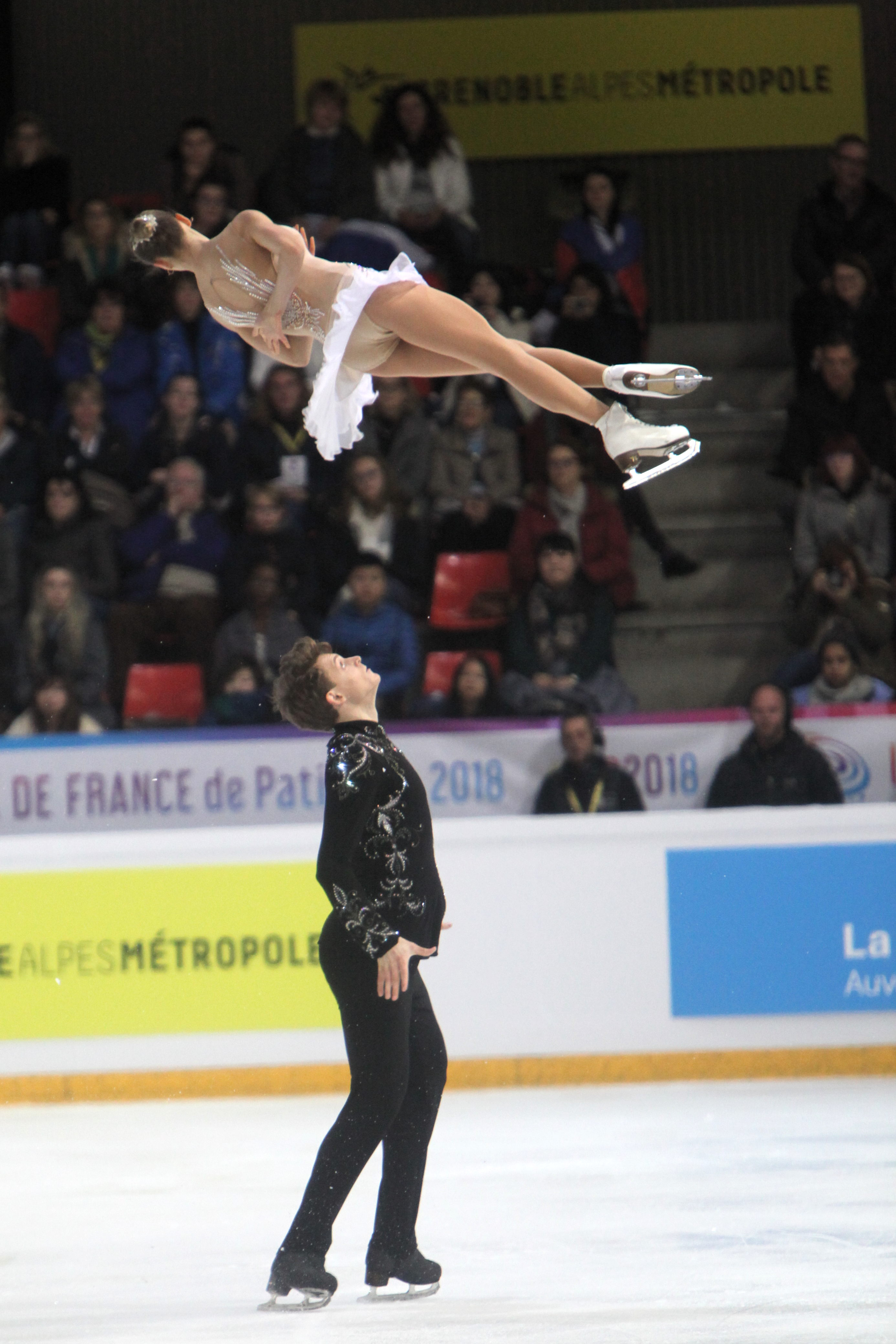 Aleksandra Boikova and Dmitrii Kozlovskii during the Pairs Free Skating at the Internationaux de France de Patinage 2018.